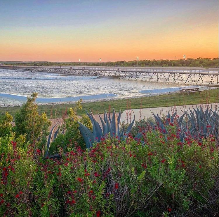 When NLand was being build the team preserved topsoil, recycled invasive species and replaced them with native plants and grasses.